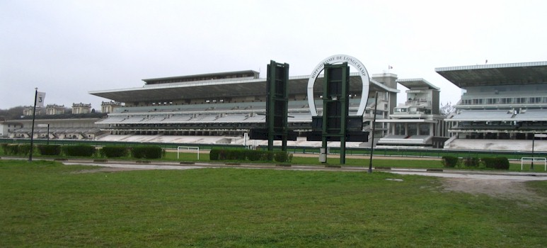 own picture of the Hippodrome de Longchamp (Paris).